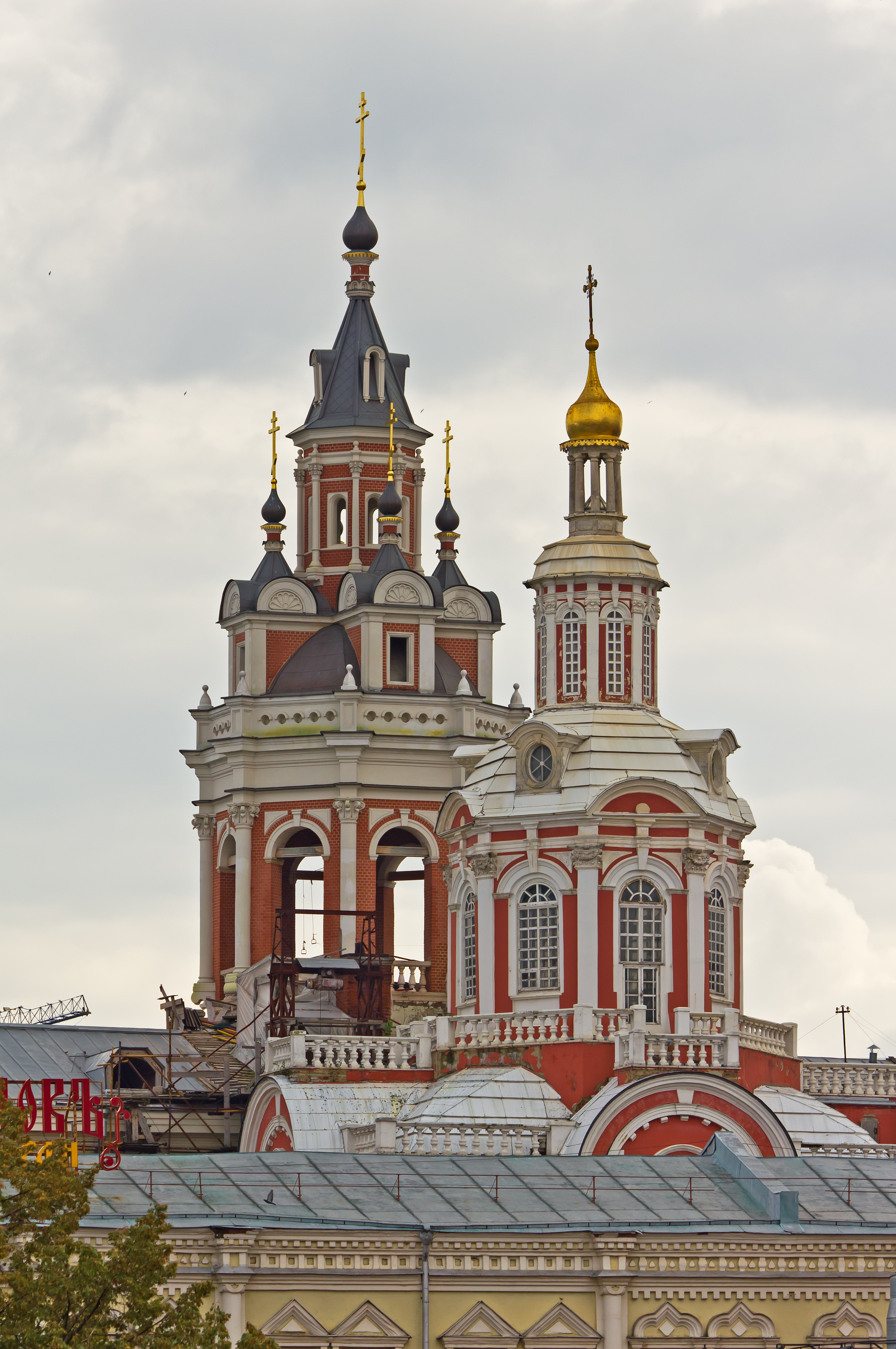 Day of the Town 2013 in Moscow, Russia. Former Zaikonospassky Monastery.